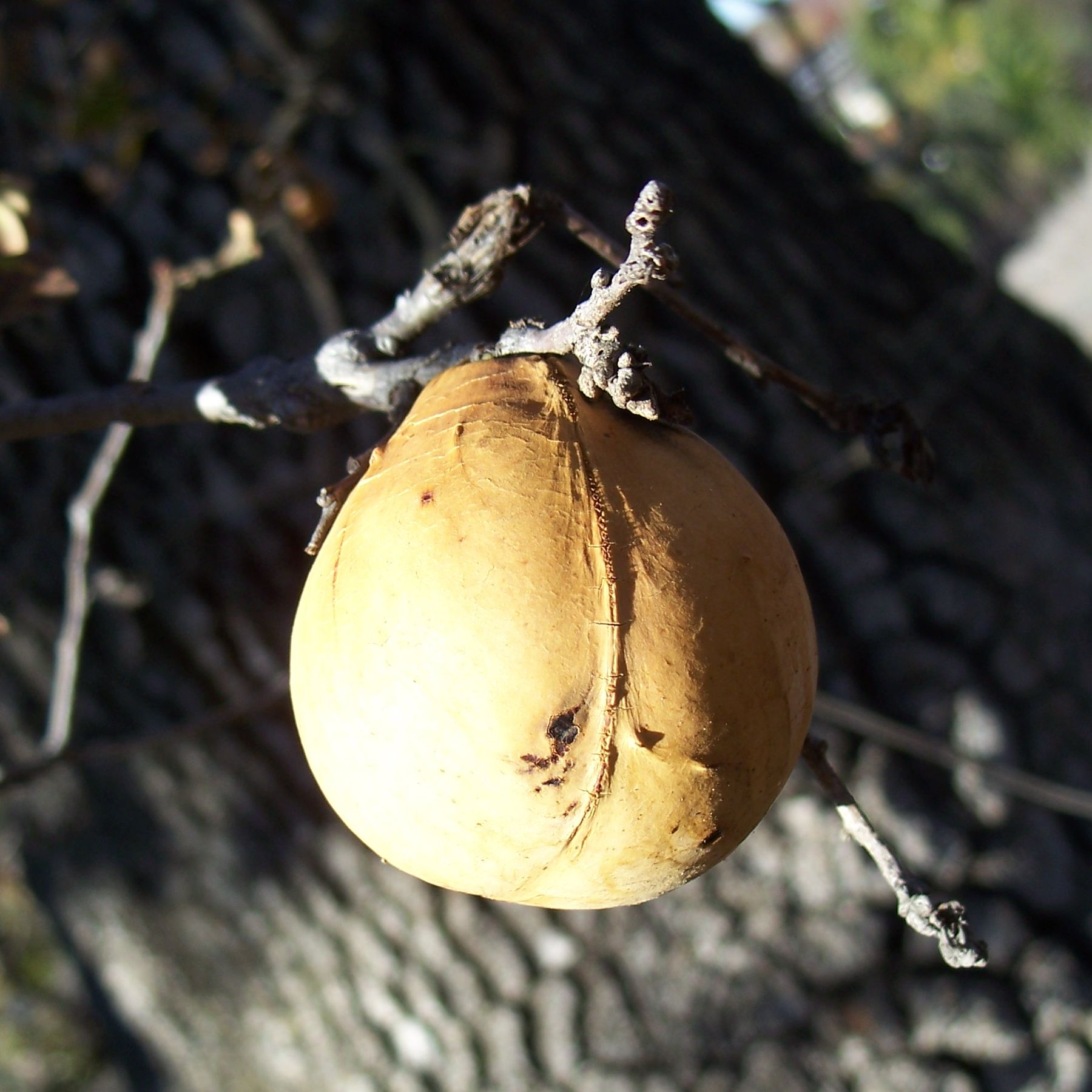 California Gall Wasp female gall on Valley Oak.